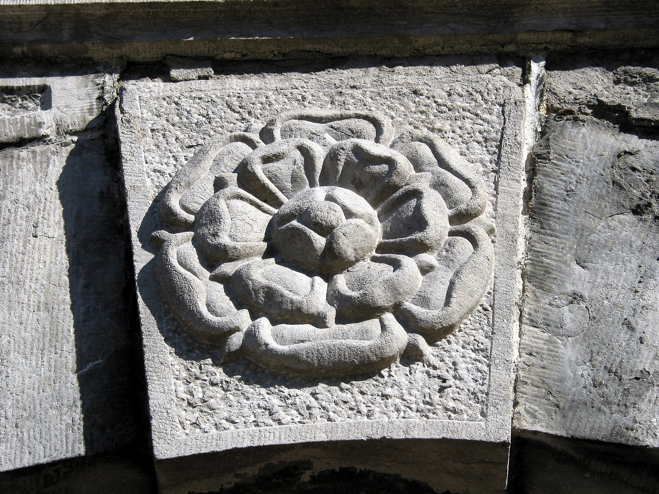 Lessines (Belgium), keystone of the Hospital Our Lady with the Rose porch decorated with a low relief of a open rose (1664). Walon: Lèssine (Bèljike), clè d’voûsse do lintê d’pwatche di l’Opital Notrè-Dame a l’Rôse gârnie d’on bas-relièf riprèsintant one drovue rôse (1664).